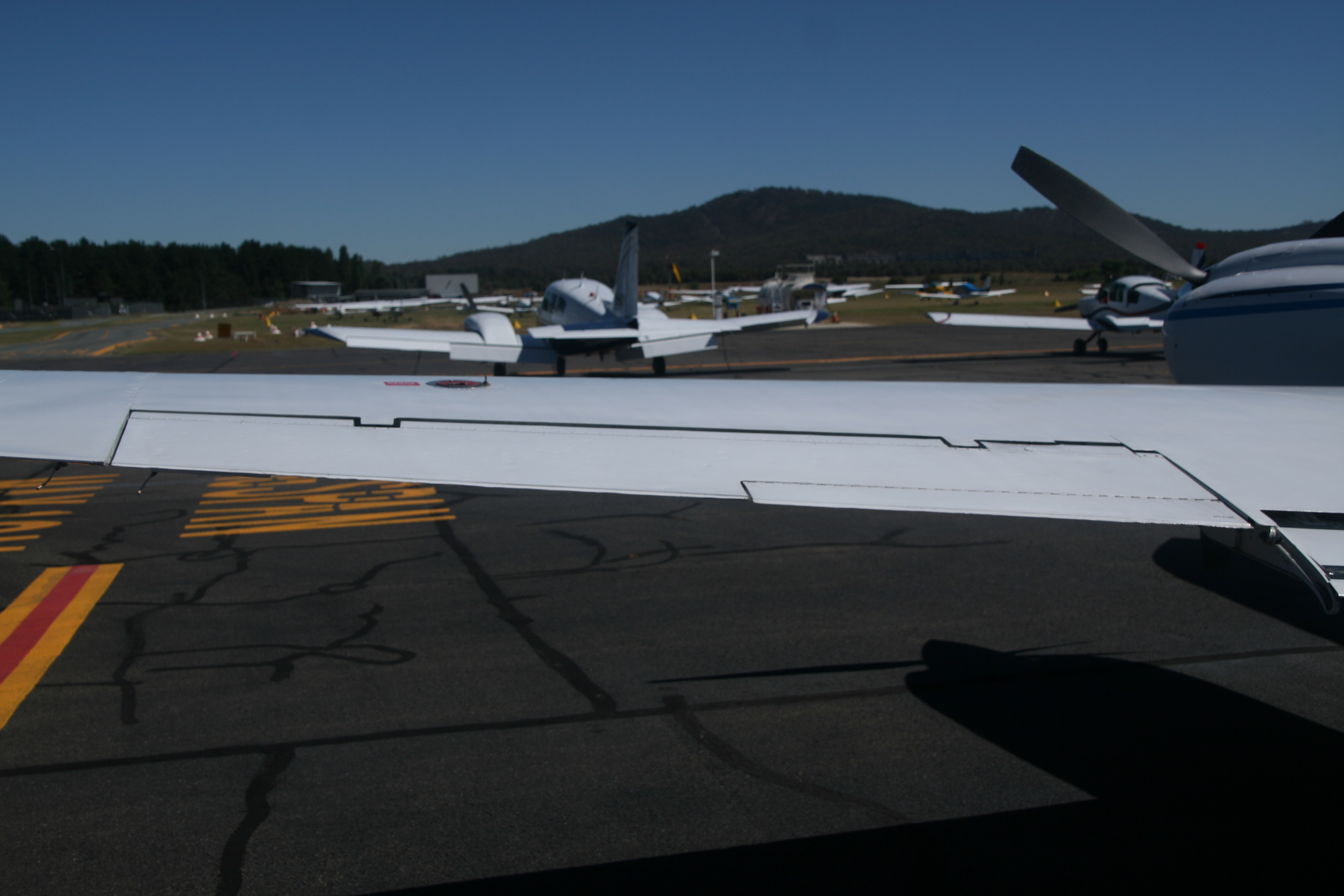 The aileron and its corresponding trim tab on the back of a light aircraft's left wing. Digital image taken by YSSYguy on 21 February 2014, for use in the aileron article. YSSYguy (talk) 02:55, 26 February 2014 (UTC)